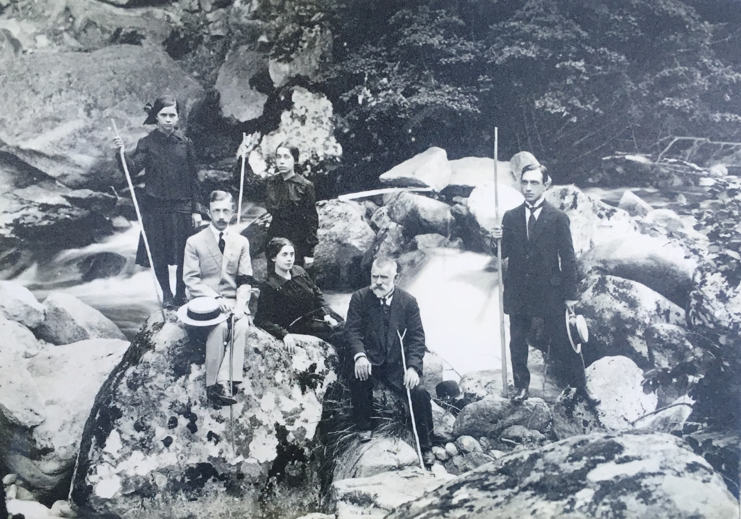 New Bulgarian University Archive - Ivan Sarailiev